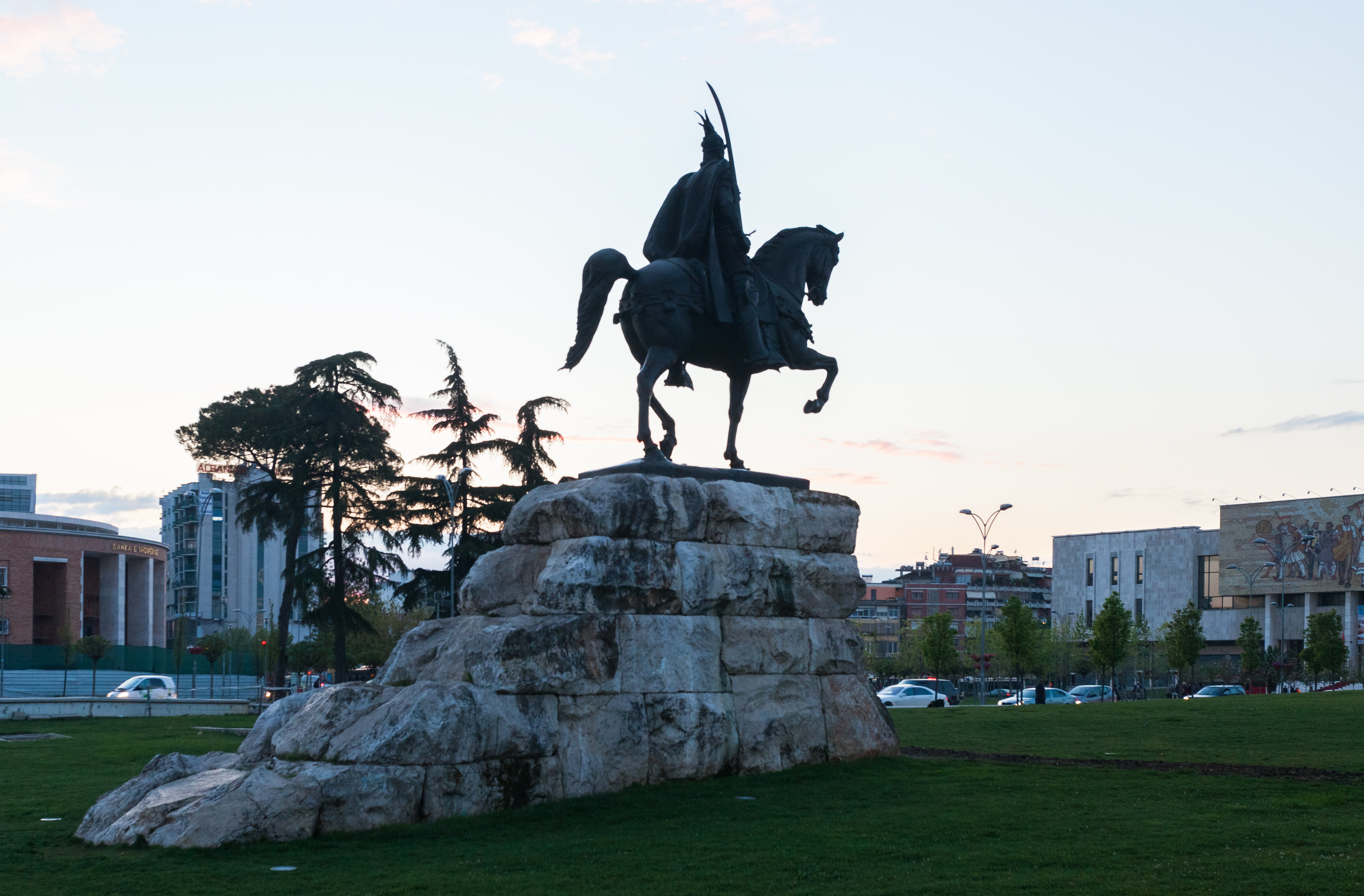 Skanderbeg Monument, Tirana, Albania